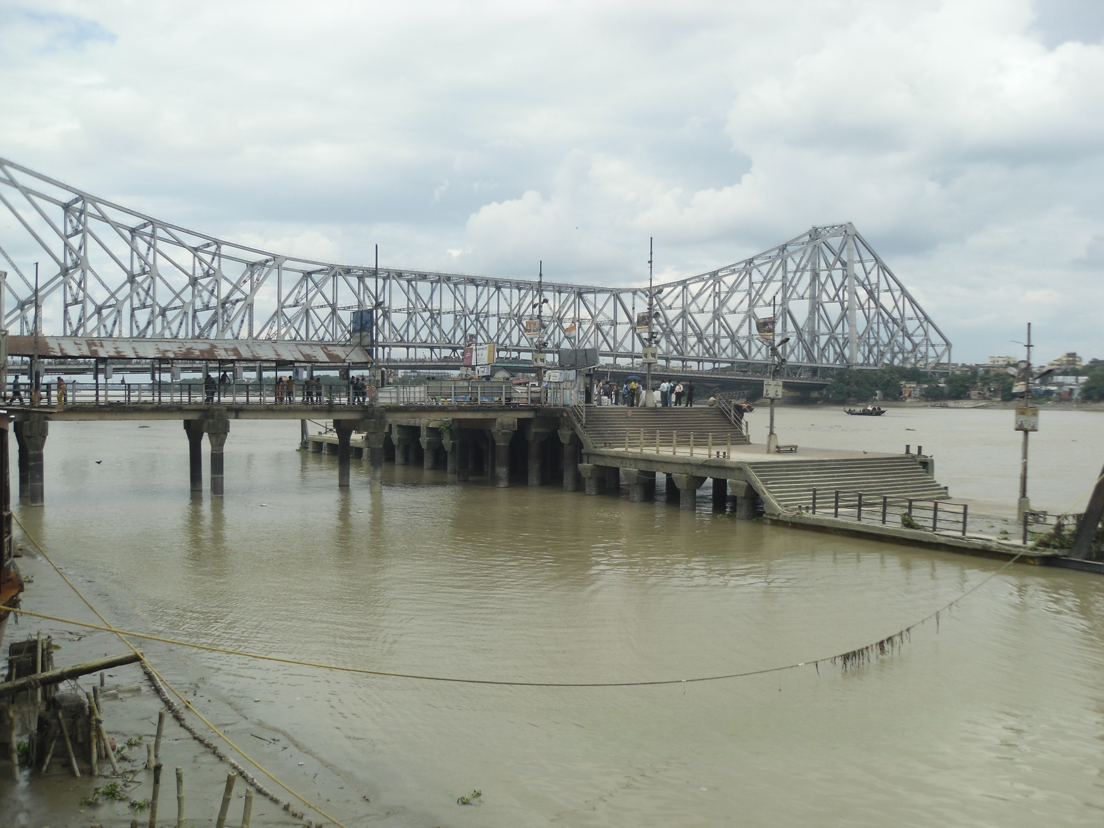 The Howrah Bridge